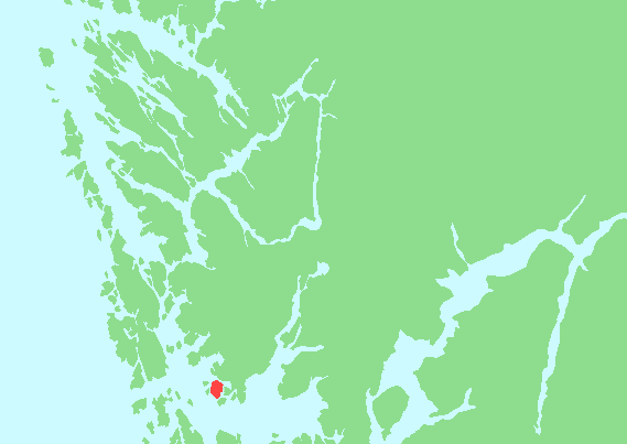 Locator map of Strøno, Hordaland, Norway